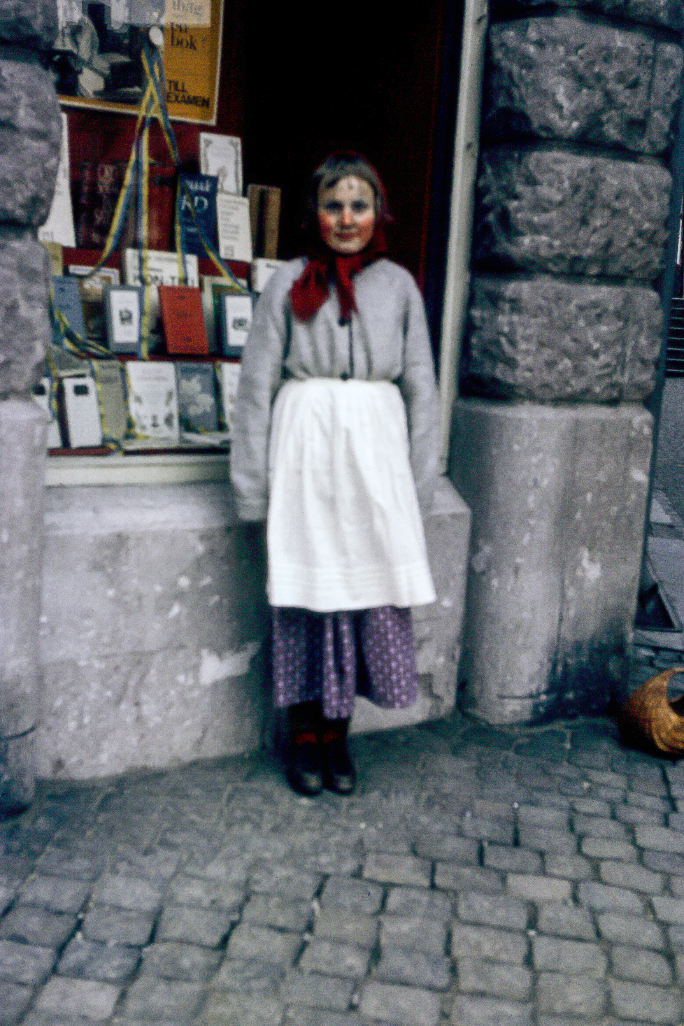 Swedish girl dressed up for Easter eve. They put on costumes and collect money for charity.